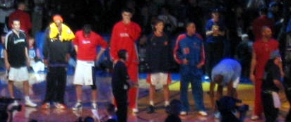 Members of the Sopohmore Team stand for the starting stand for the starting line up of the 2004 got milk? Rookie Challenge game at the Staples Center.The photograph was taken with a Canon PowerShot A70 camera and edited (color balance, brightness, contrast) using ArcSoft PhotoStudio 5.5